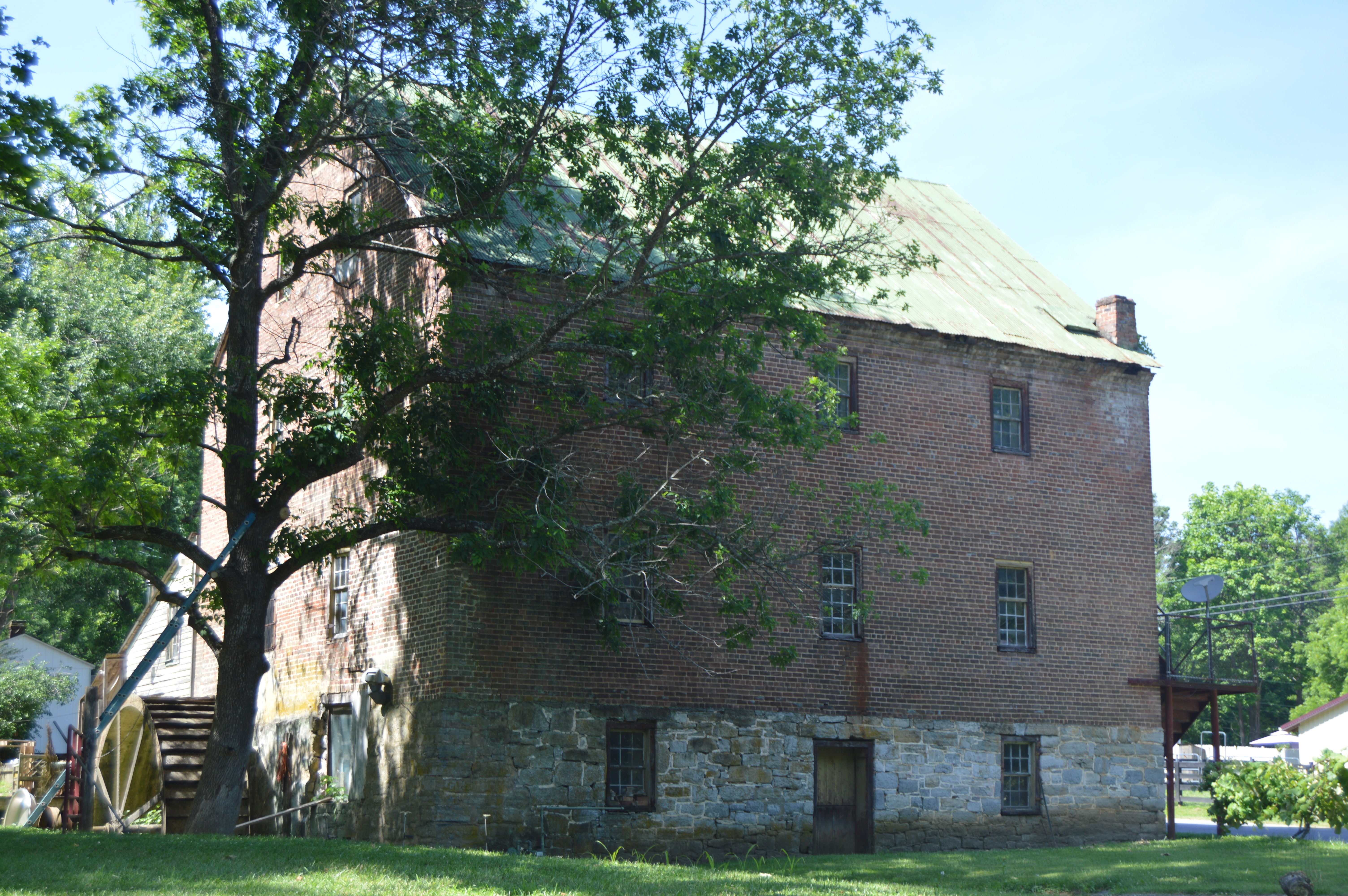 Front and western end of Nininger's Mill, located on Tinker Mill Road southwest of Amsterdam in Botetourt County, Virginia, United States. Built in 1847, it is listed on the National Register of Historic Places.